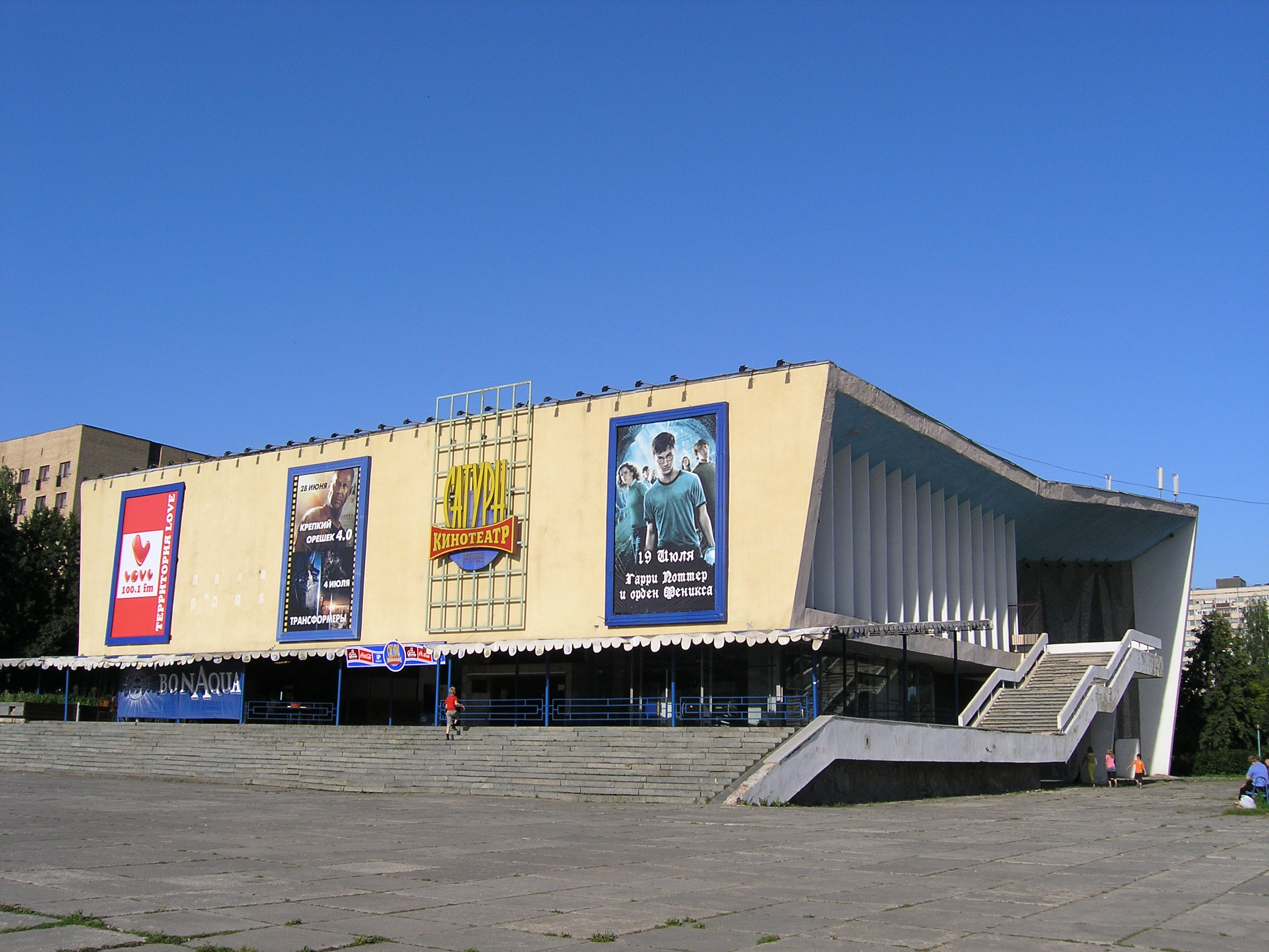 Saturn cinema, Togliatti, Russia